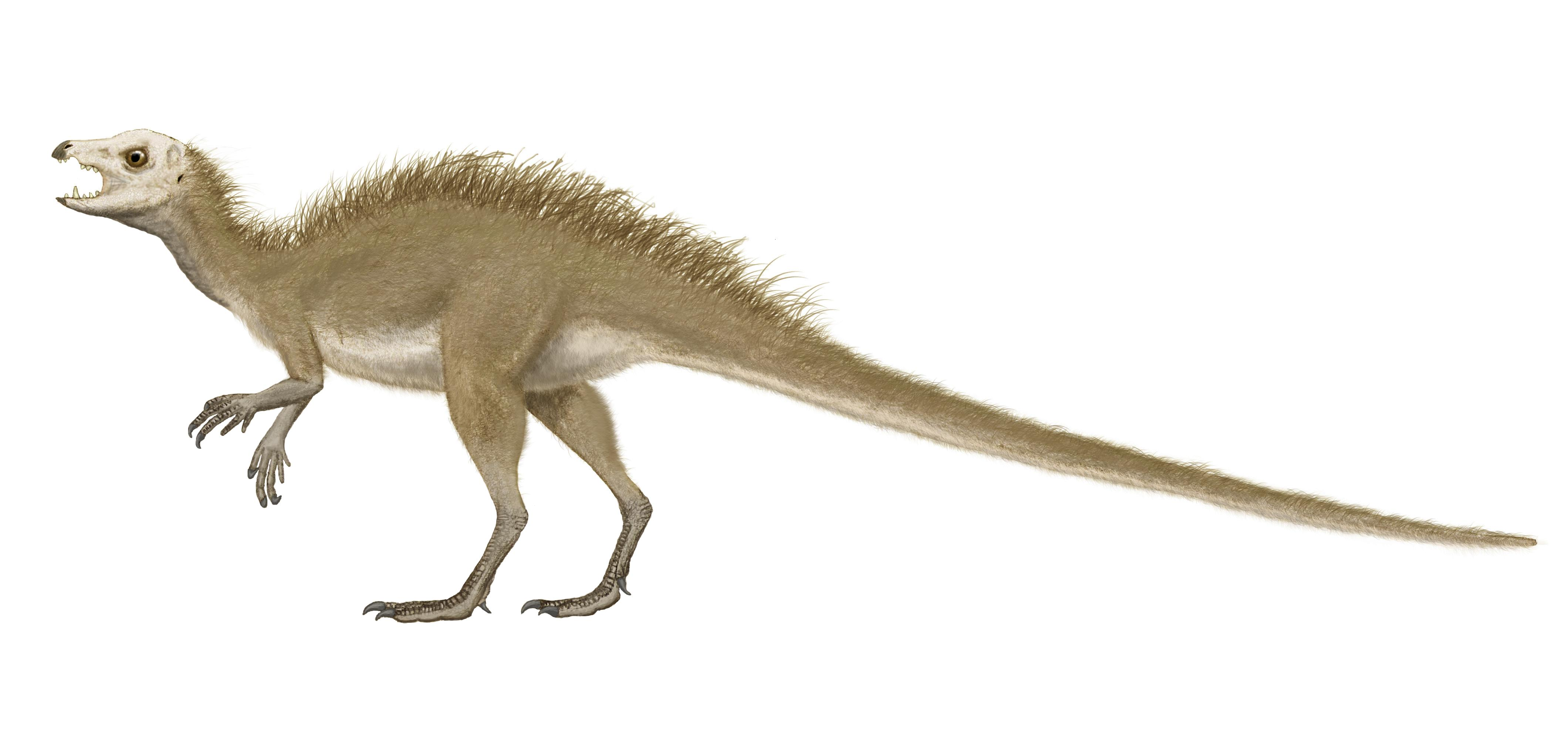 Life restoration of Fruitadens haagarorum. Based on figure 1 of "Lower limits of ornithischian dinosaur body size inferred from a new Upper Jurassic heterodontosaurid from North America" by Richard J. Butler, Peter M. Galton, Laura B. Porro, Luis M. Chiappe, Donald M. Henderson, and Gregory M. Erinkson. Proceedings of the Royal Society B The filamentous integumentary structures are speculative and based on those of the related genus Tianyulong.